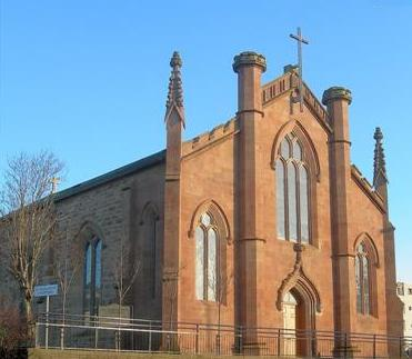 St Margaret's Cathedral Ayr